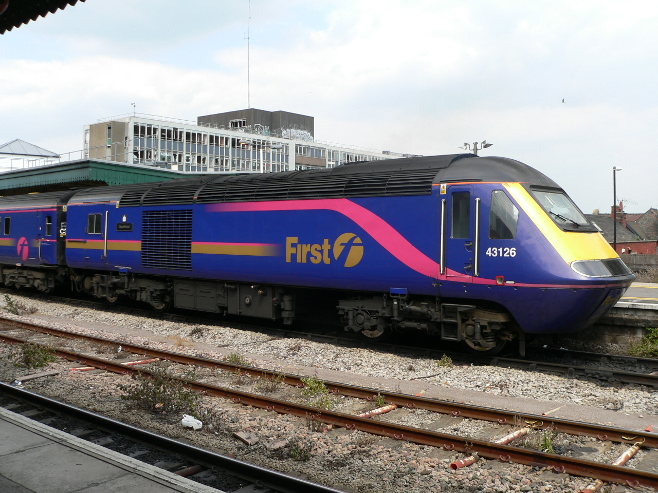 First Great Western Class 43 HST 43126 City of Bristol at Bristol Temple Meads station, shortly after arriving with a service from London Paddington.